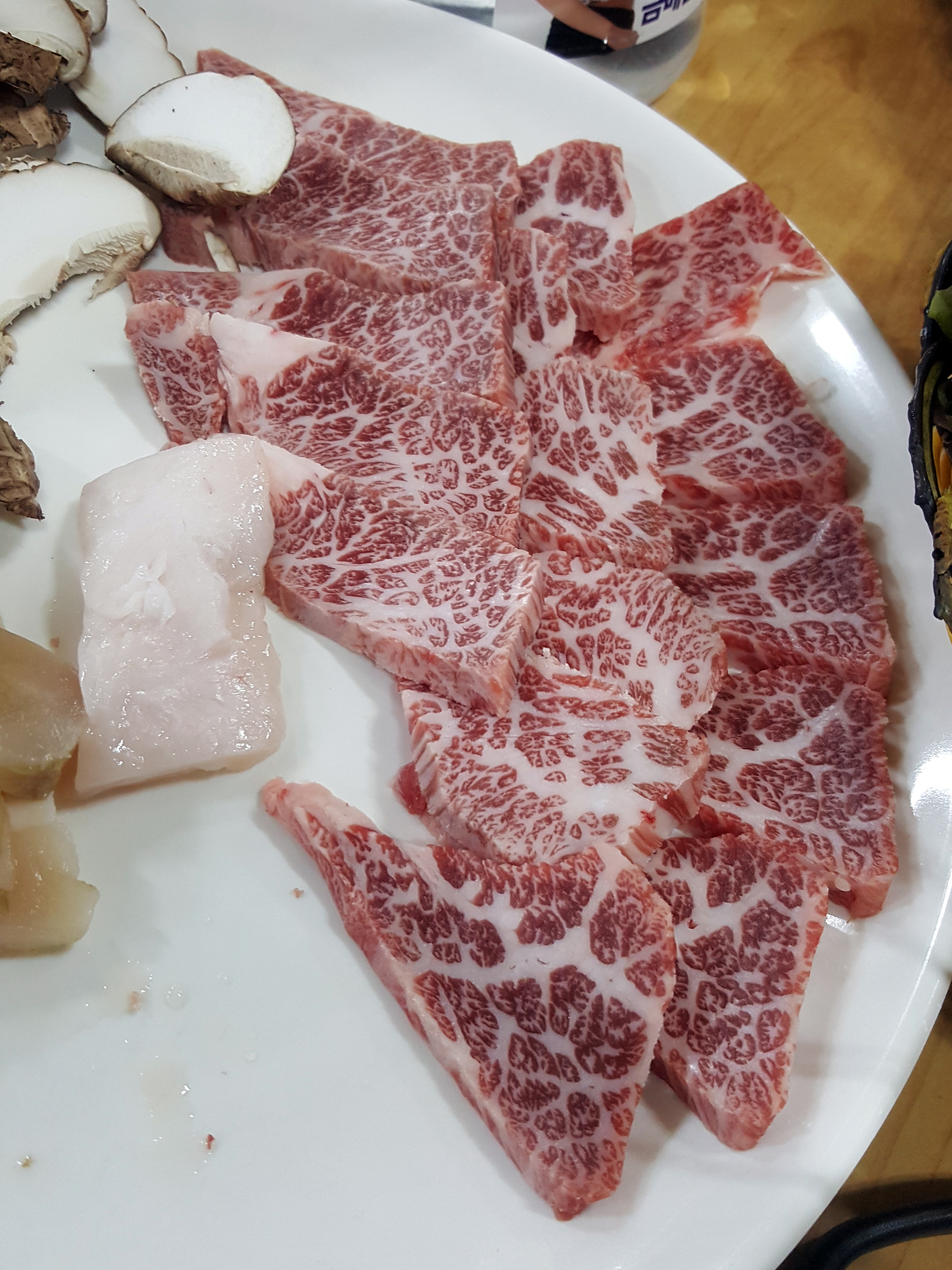 Extremely marbled hanoo beef